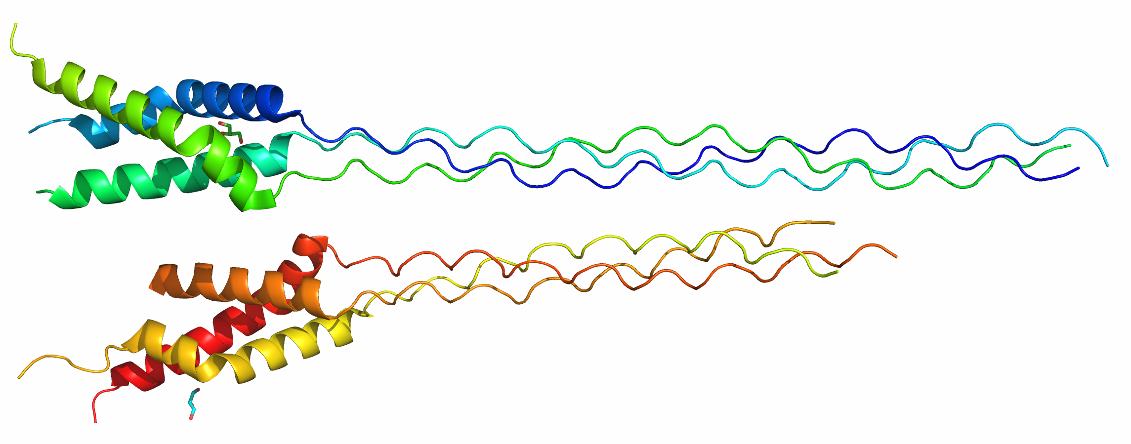 Ribbon model of the NH2 domain of Collagen, type IX, alpha 2, after PDB: 5CVA​.